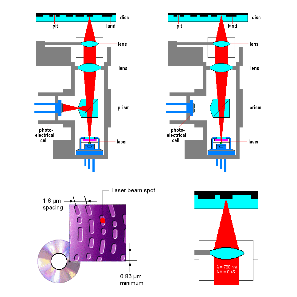 A diagram of how optical reading works with a compact disc.